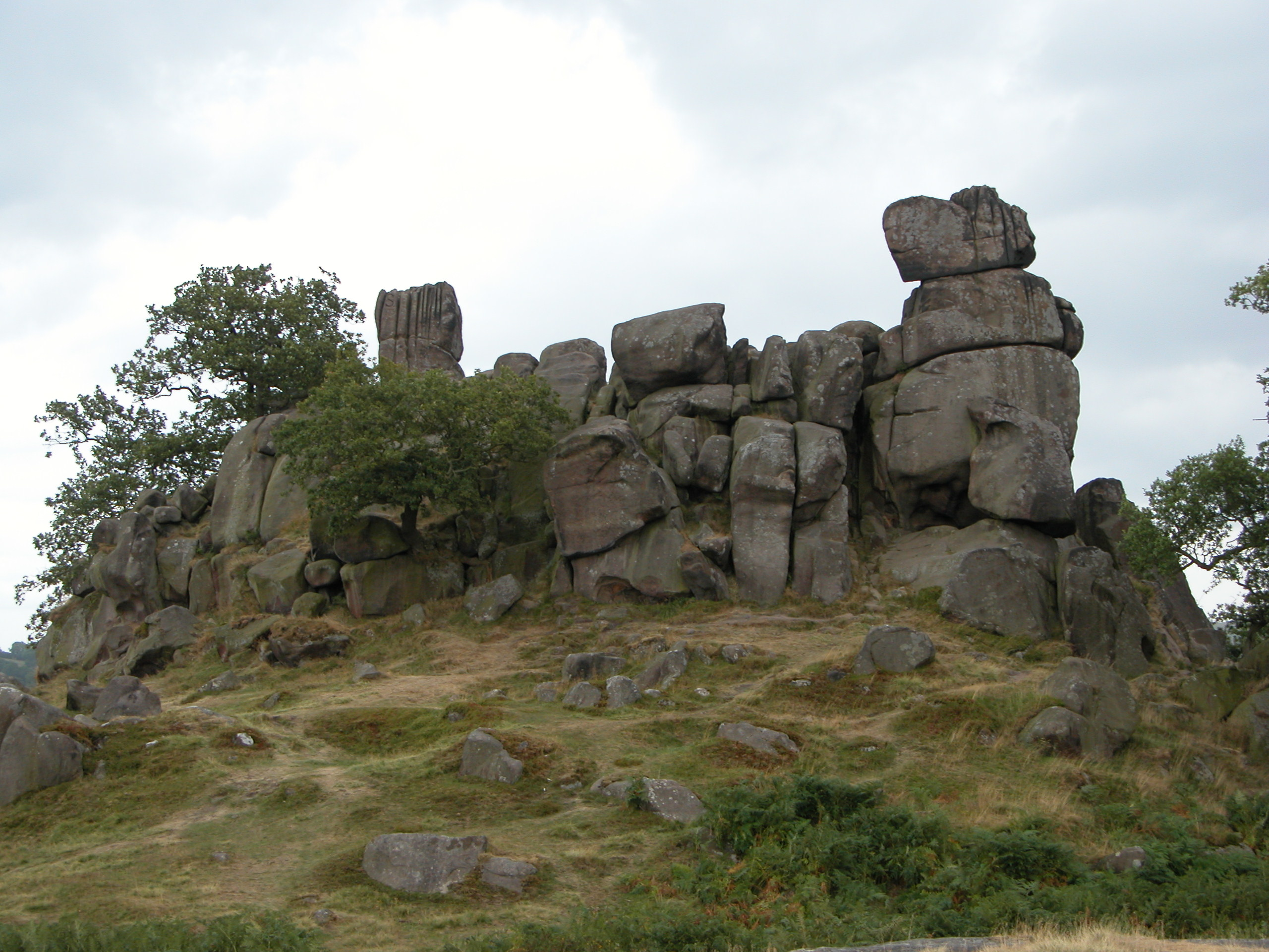 Robin Hood's stride, by William M. Connolley, 2006/08.